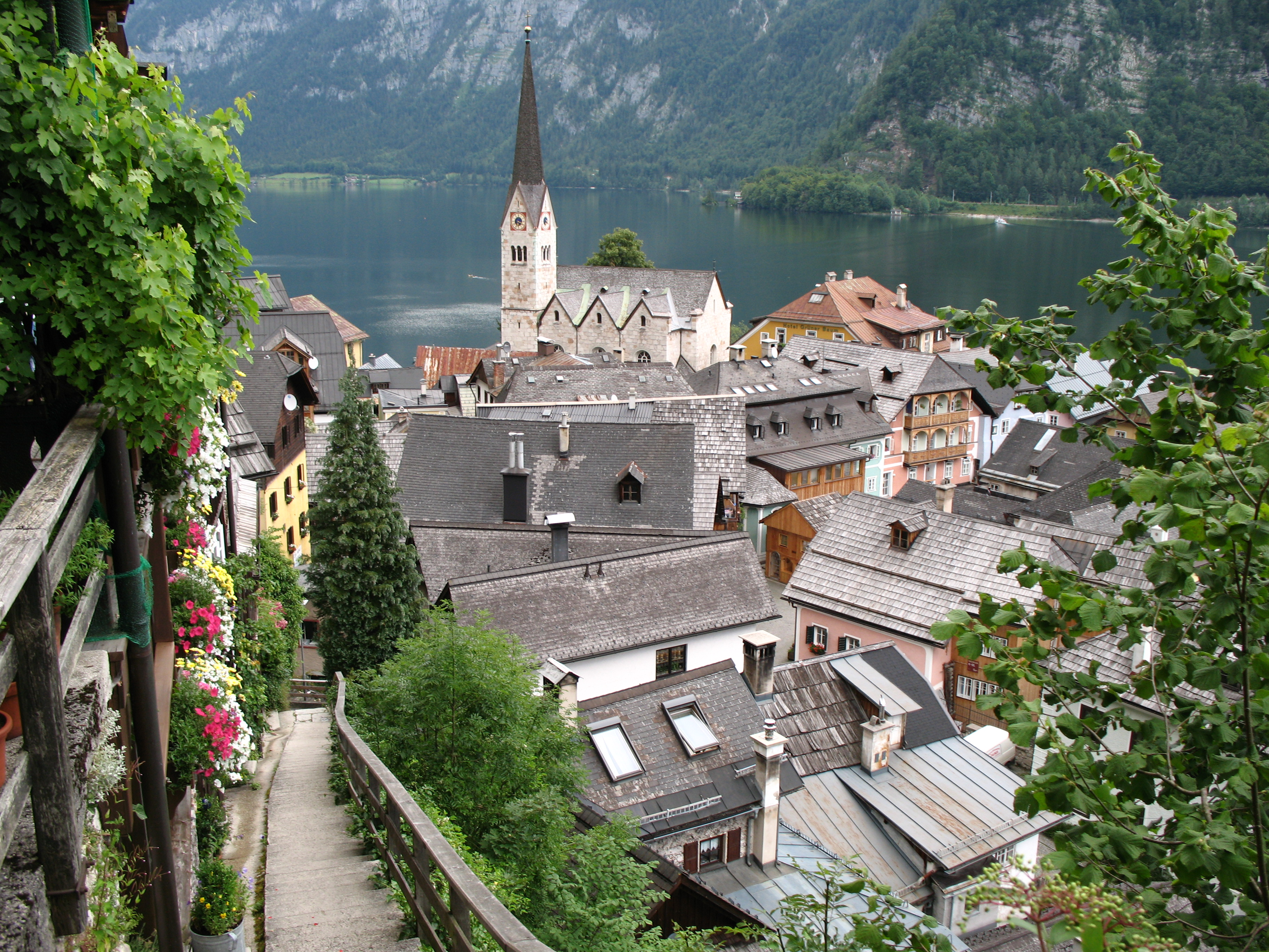 Hallstatt, Austria